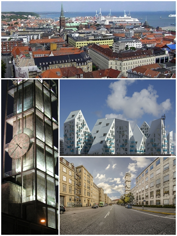 Aarhus set fra Rådhuset.jpg, Aarhus city hall by night.jpg, Isbjerget.jpg, Park alle tidlig morgen.jpg